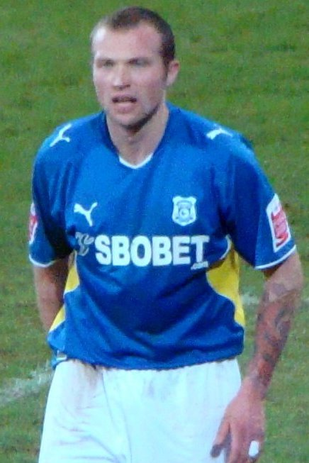 09/01/10 Cardiff V Blackpool, Cardiff City Stadium, Cardiff, Wales